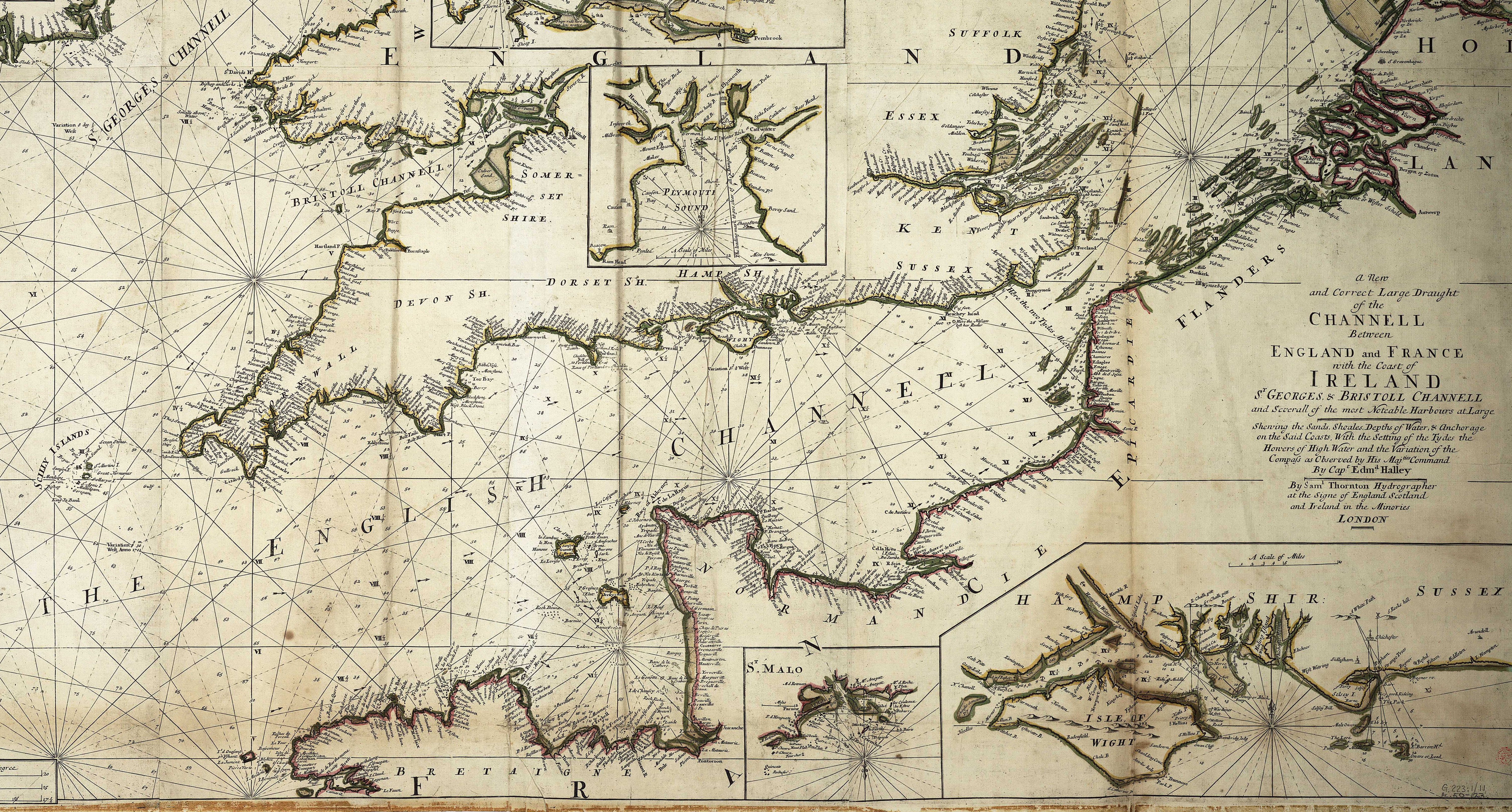 Single sheet. Engraving coloured in outline, laid on linen and formerly edged. Scale [circa 1:700,000 (bar)]. The bar scales are in English & French leagues, Dutch miles and Spanish leagues. The border is graduated for latitude. The chart has rhumb lines and a 90 degree variation arc and contains notes on depths and tides. There are five insets: Kinsale harbour [circa1:200,000 (bar)]; Milford Haven [circa 1:95,000 (bar)]; Plymouth Sound [circa 1:70,000 (bar)]; St Malo [circa 1:170,000 (bar)]; and [Hampshire and the Isle of Wight] [circa 1:250,000 (bar)].